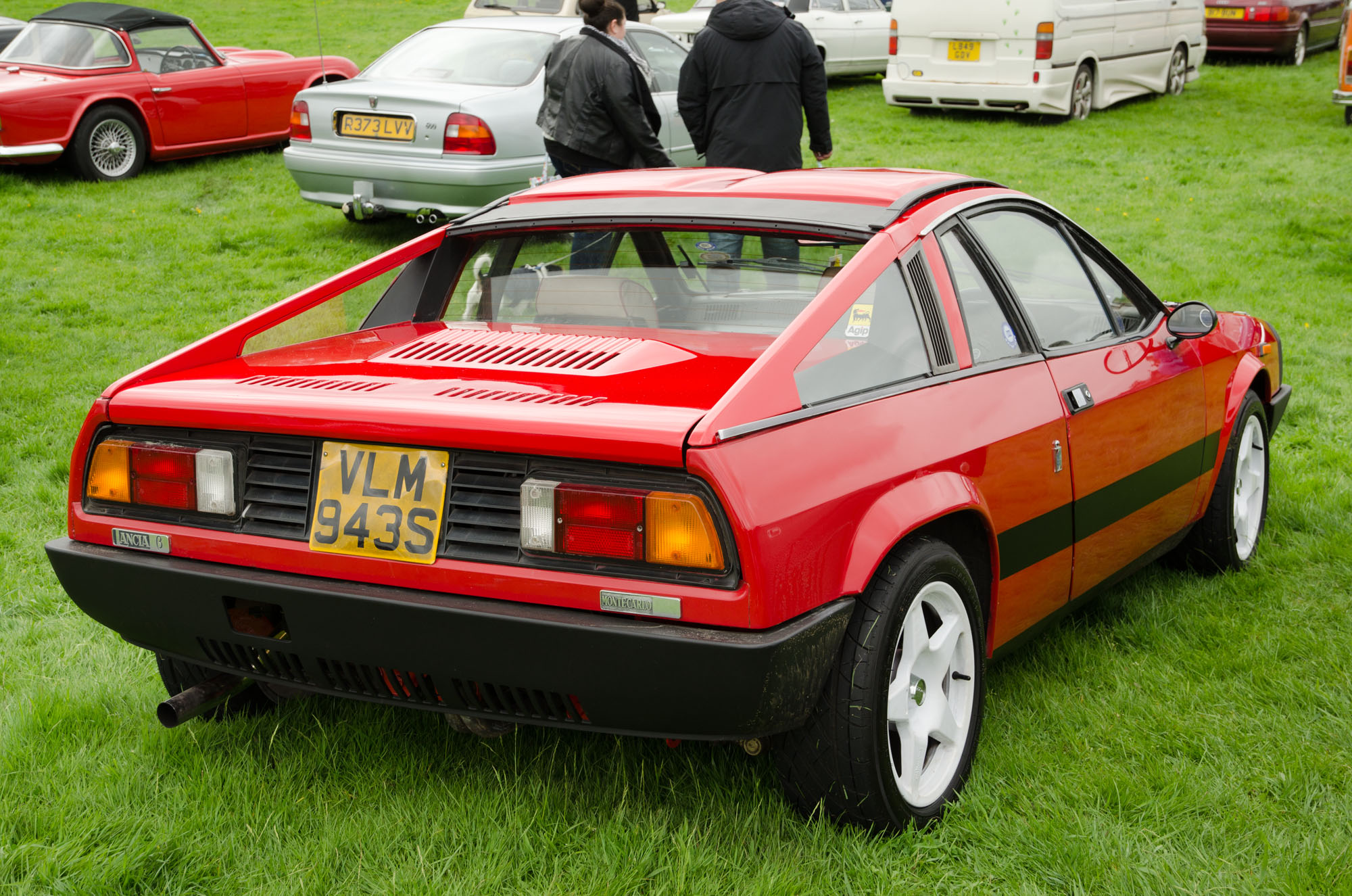 Capesthorne Hall Classic Car Show 25/05/2014